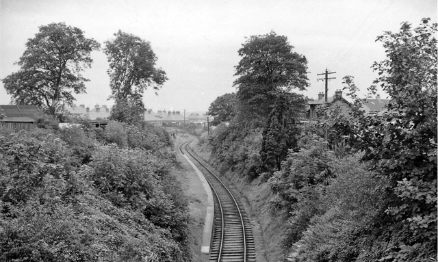 Broomieknowe Station (remains) View eastward, towards Esk Valley Junction and Edinburgh; ex-North British Edinburgh (Waverley) - Polton branch. The Station was closed when the branch passenger service ceased on 10/9/51, but the branch survived for goods until 18/5/64.